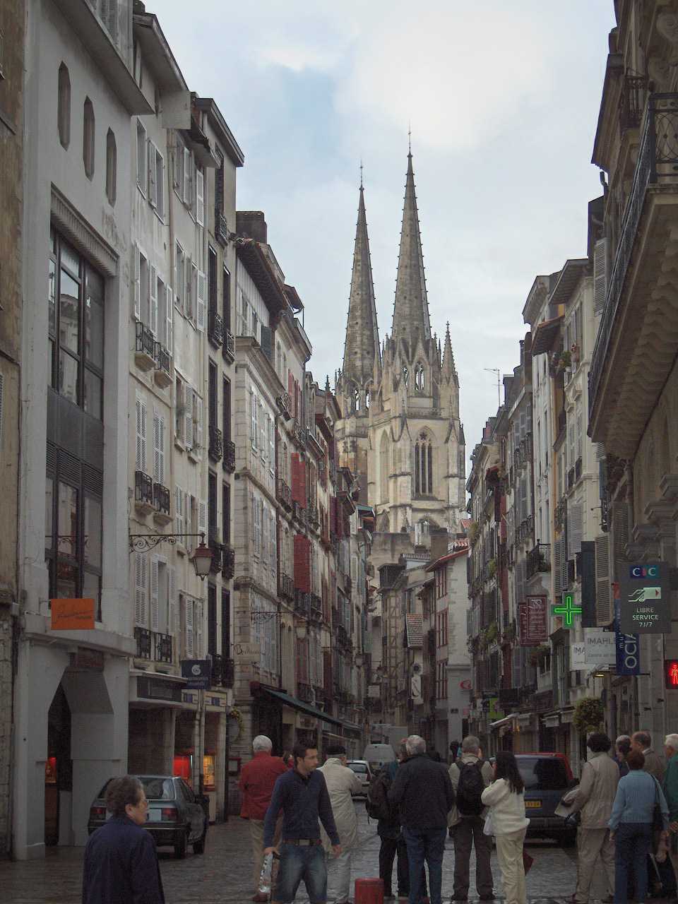 Bayonne, France; view towards the cathedral